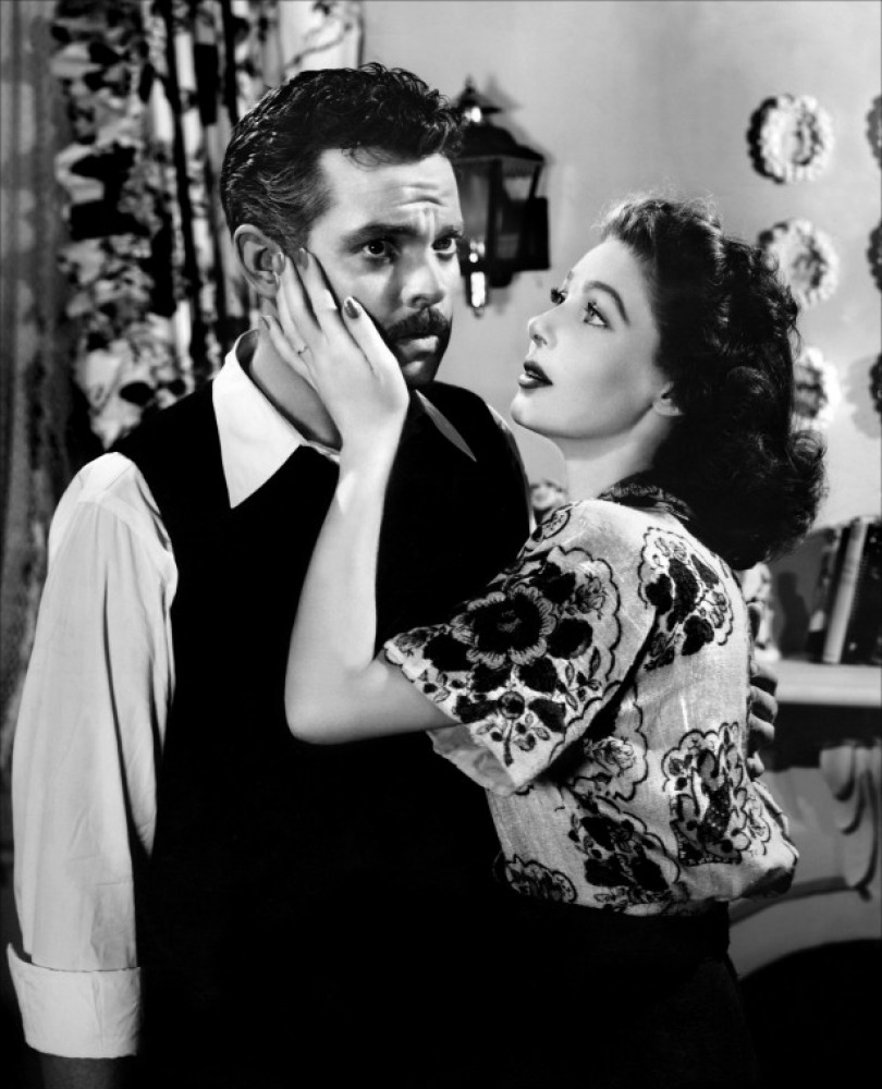 Orson Welles and Loretta Young in The Stranger - cropped screenshot